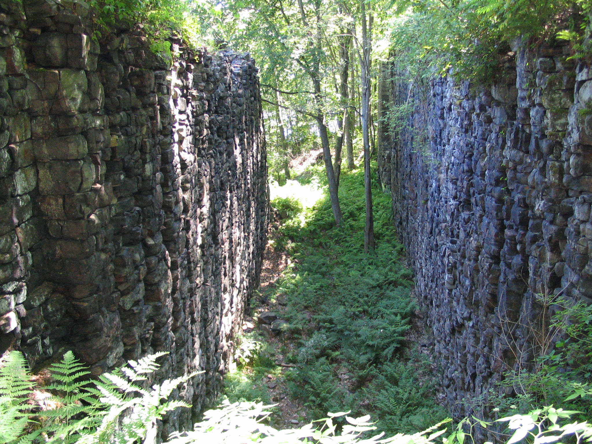 Photo by myself, DCwom June 2006